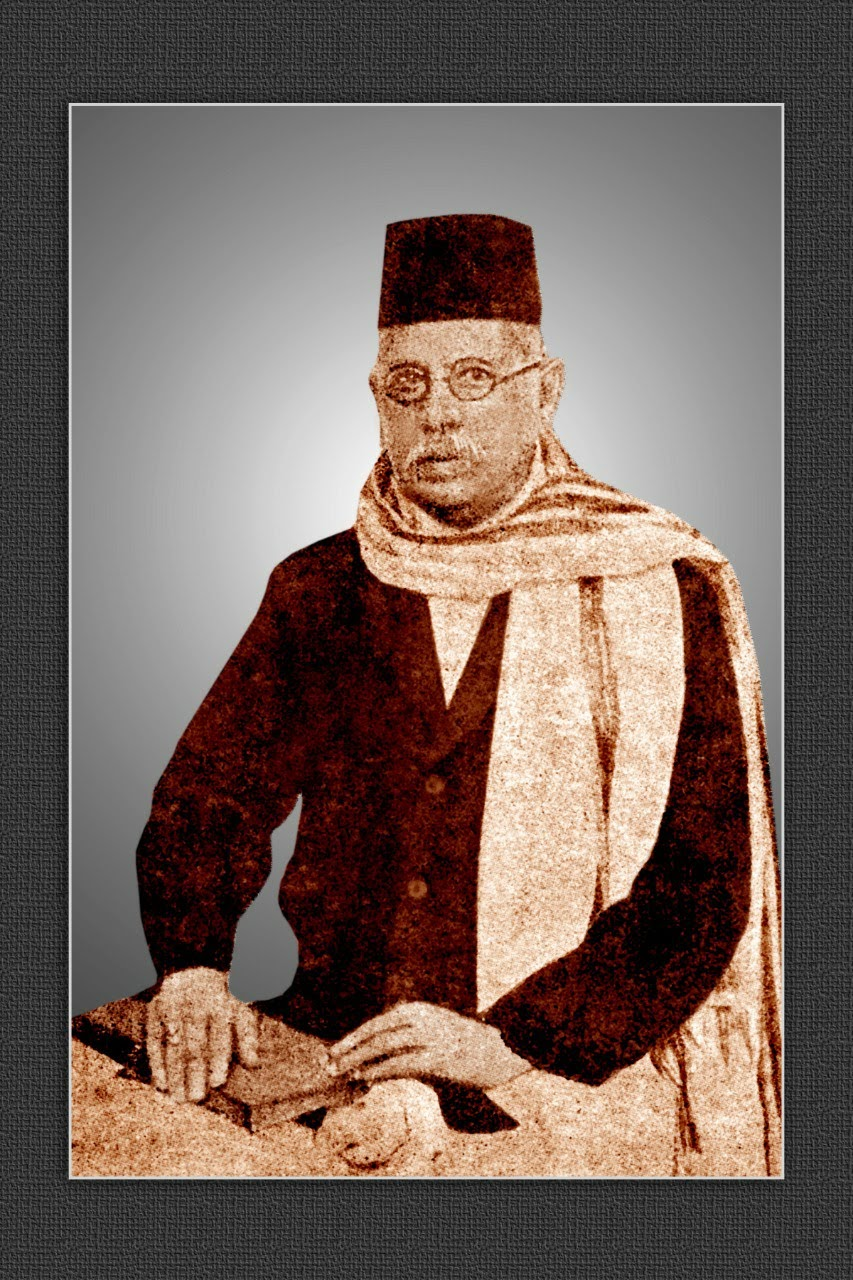 Our family portrait of bhanu kavi. We are his kins.